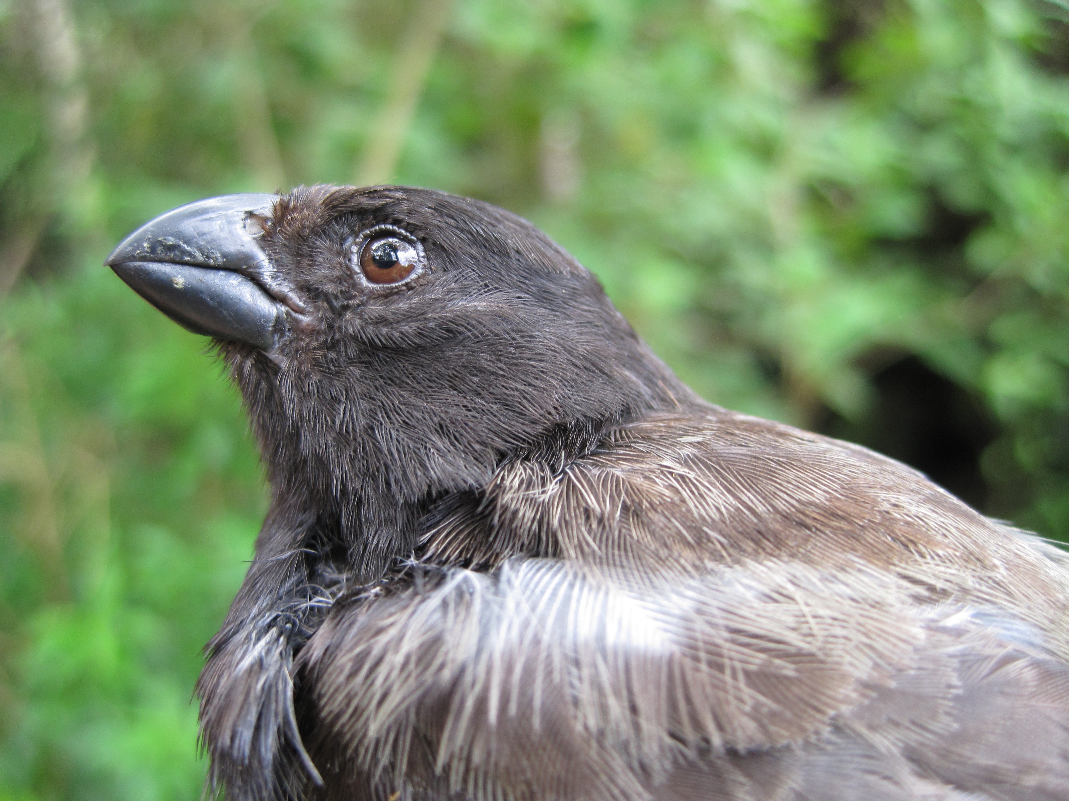 Male medium tree finch